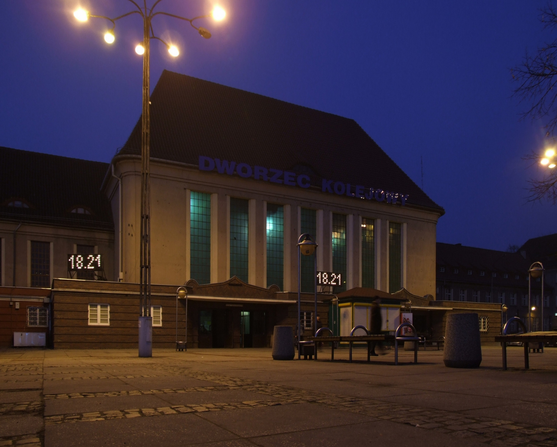 Gliwce Main Station by night (main entrace)